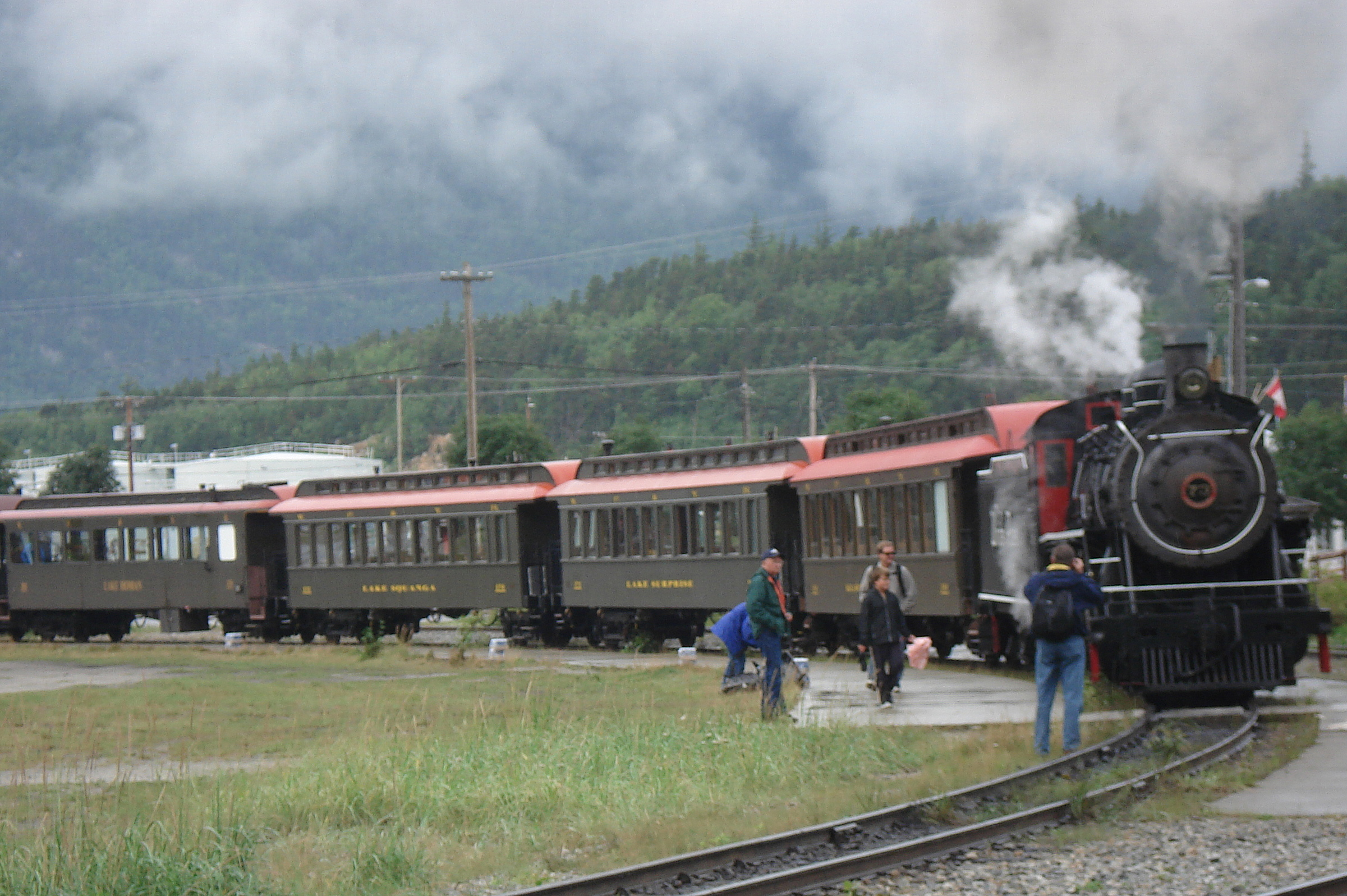 Steam engin on the White Pass and Yukon Route